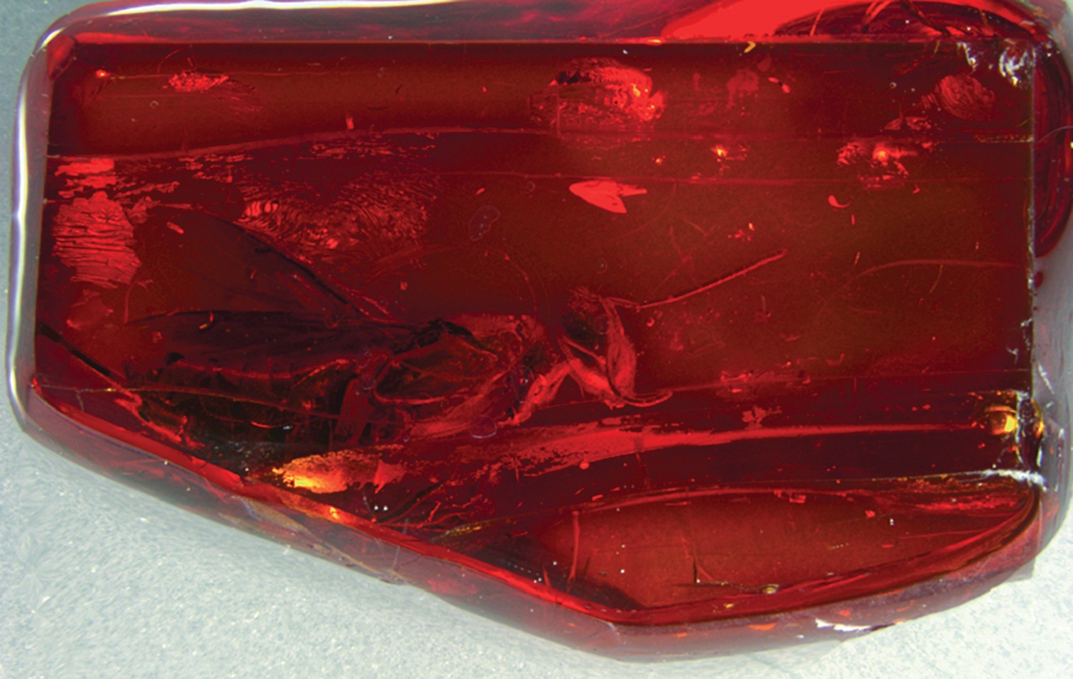 Propelma rohdendorfi, amber block bearing holotype female.